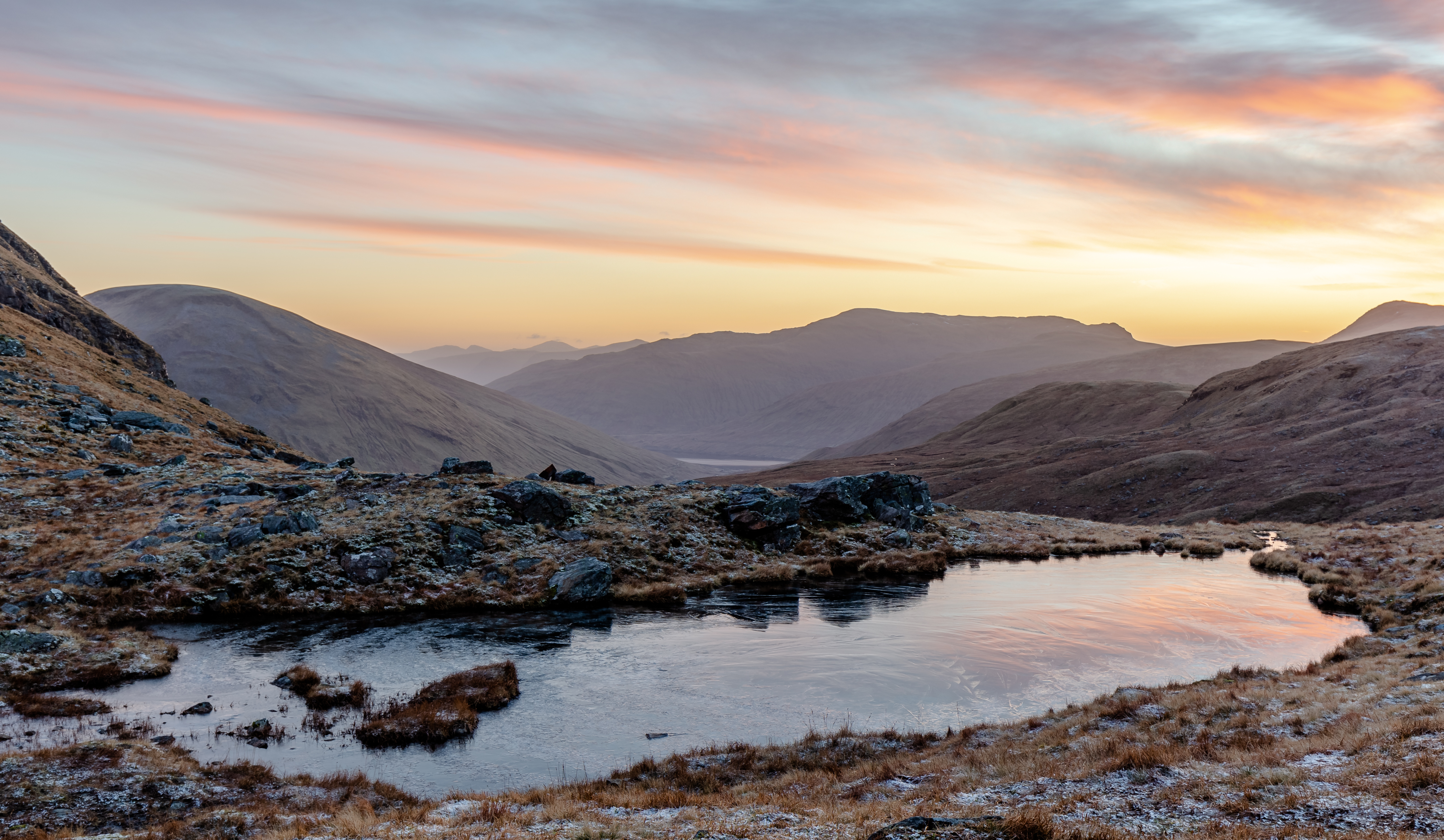 A small loch in the saddle between Beinn an Dothaidh and Beinn Dorain. Taken during sunrise. Scottish Highlands, Scotland